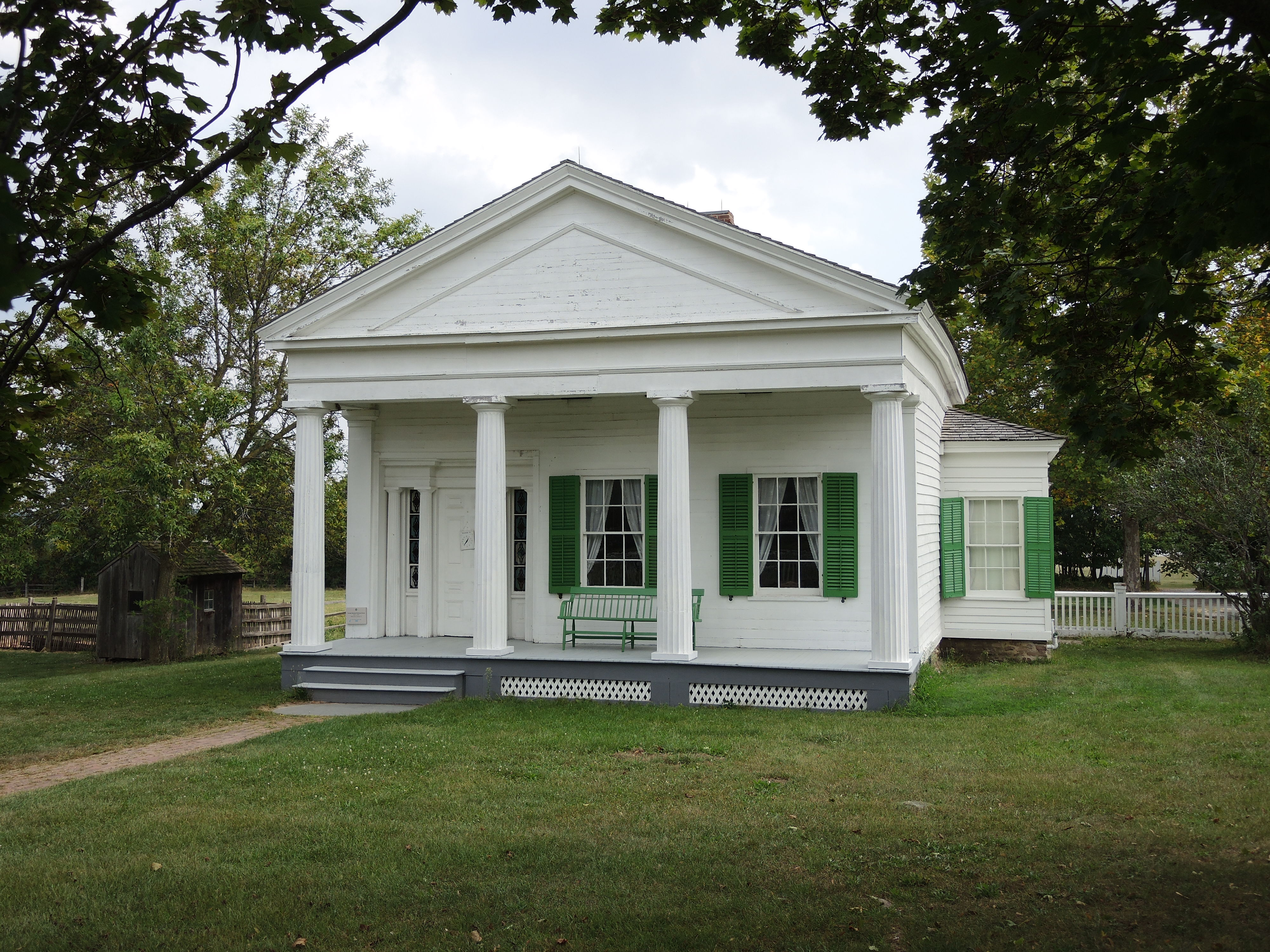 Looking East at George Eastman's boyhood home, originally sited in Waterville, New York, now located in Genesee Country Village and Museum